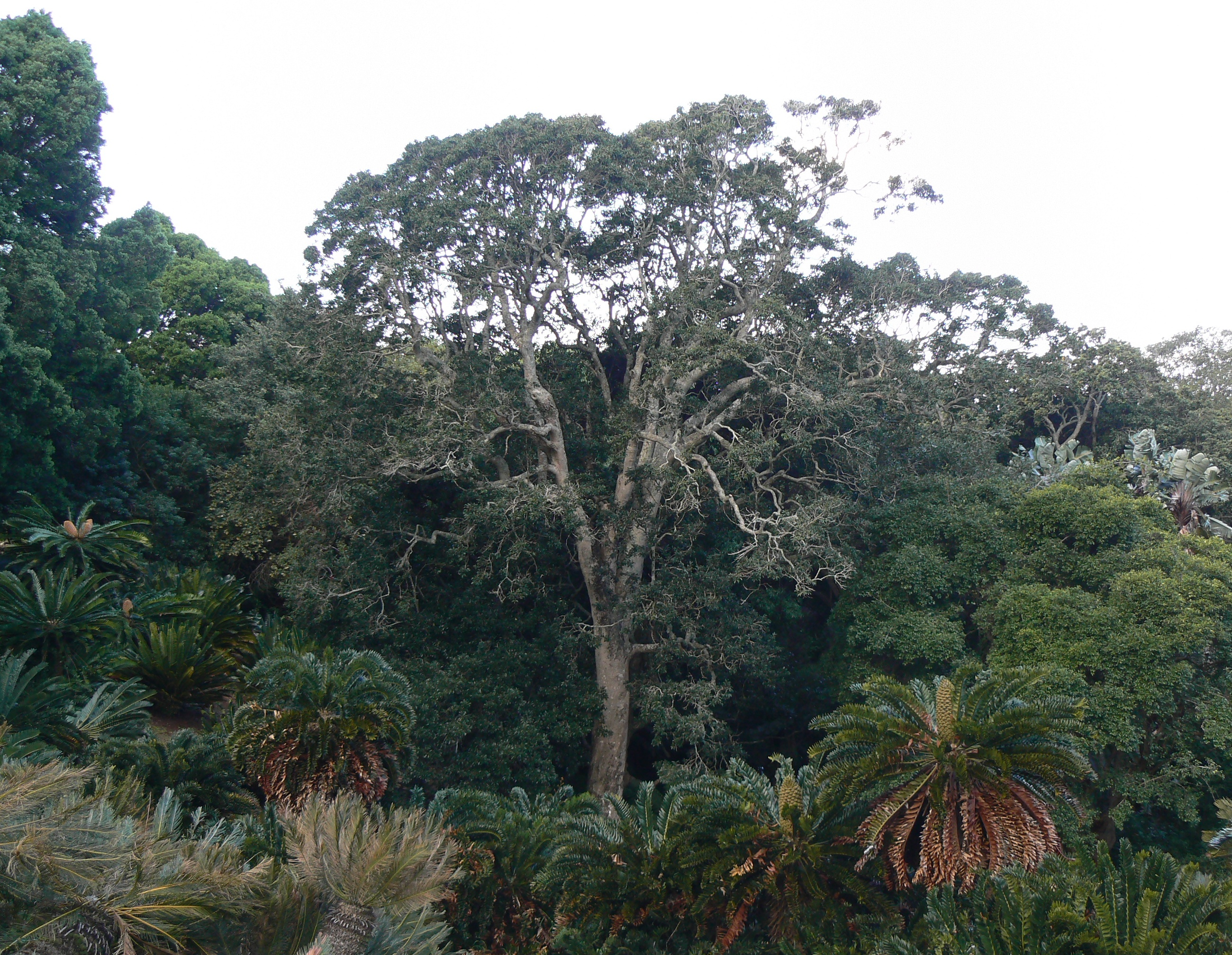 Ilex mitis tree - Cape Town.